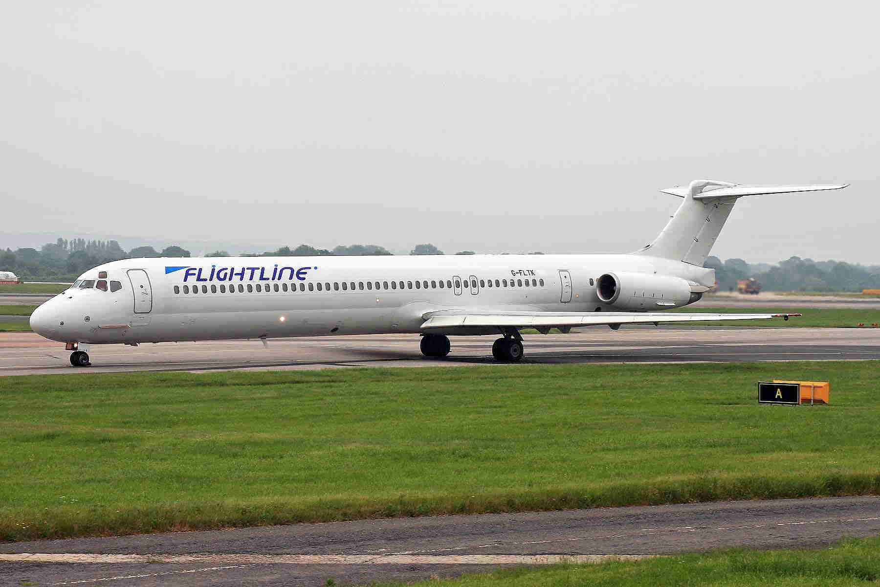 A picture of an airplane (name of it is on the file name).